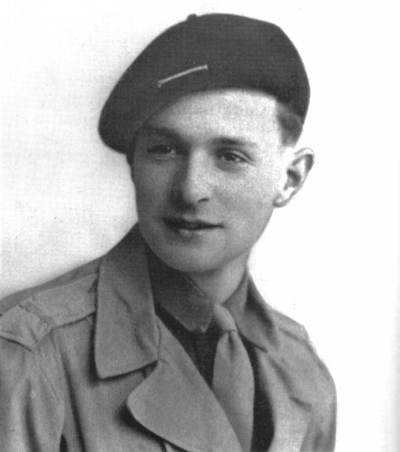 Gerhard Leo (1923-2009), German resistant, member or the French résistance